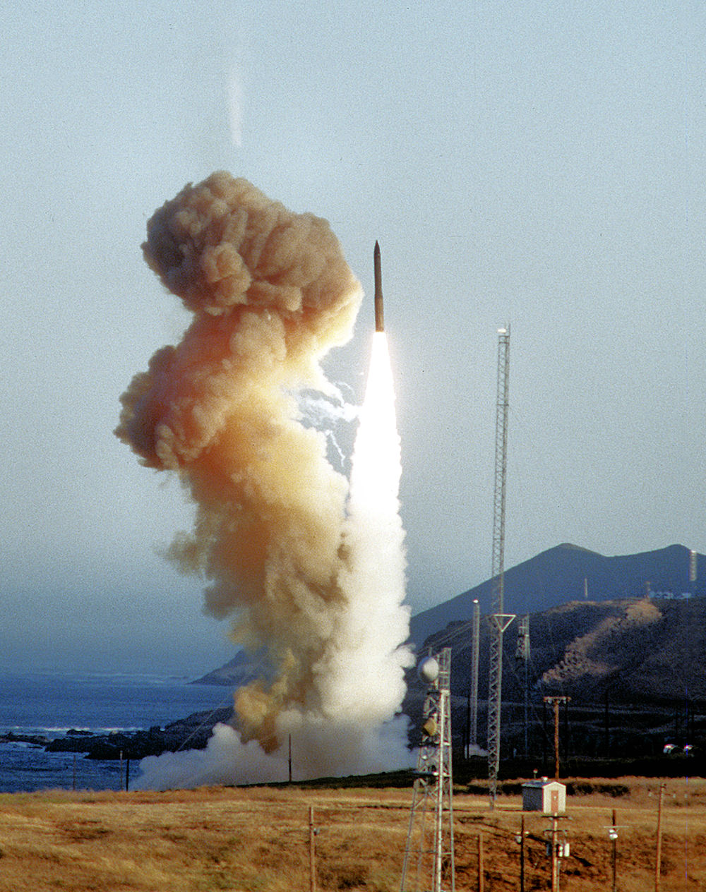 A Minuteman III missile was test launched from Launch Facility 04. The missile traveled approximately 4200 miles in twenty minutes to the Kwajalein Missile Range in the Marshall Islands. The test is conducted to prove the reliability of land based nuclear missiles. Location: VANDENBERG AIR FORCE BASE, CALIFORNIA (CA) UNITED STATES OF AMERICA (USA) Camera Operator: MASTER SGT. LORENZO GAINES Date Shot: 8 Jun 1994 Image ID: DFST9501696 Service Depicted: Air Force F3753SPT94000069XX